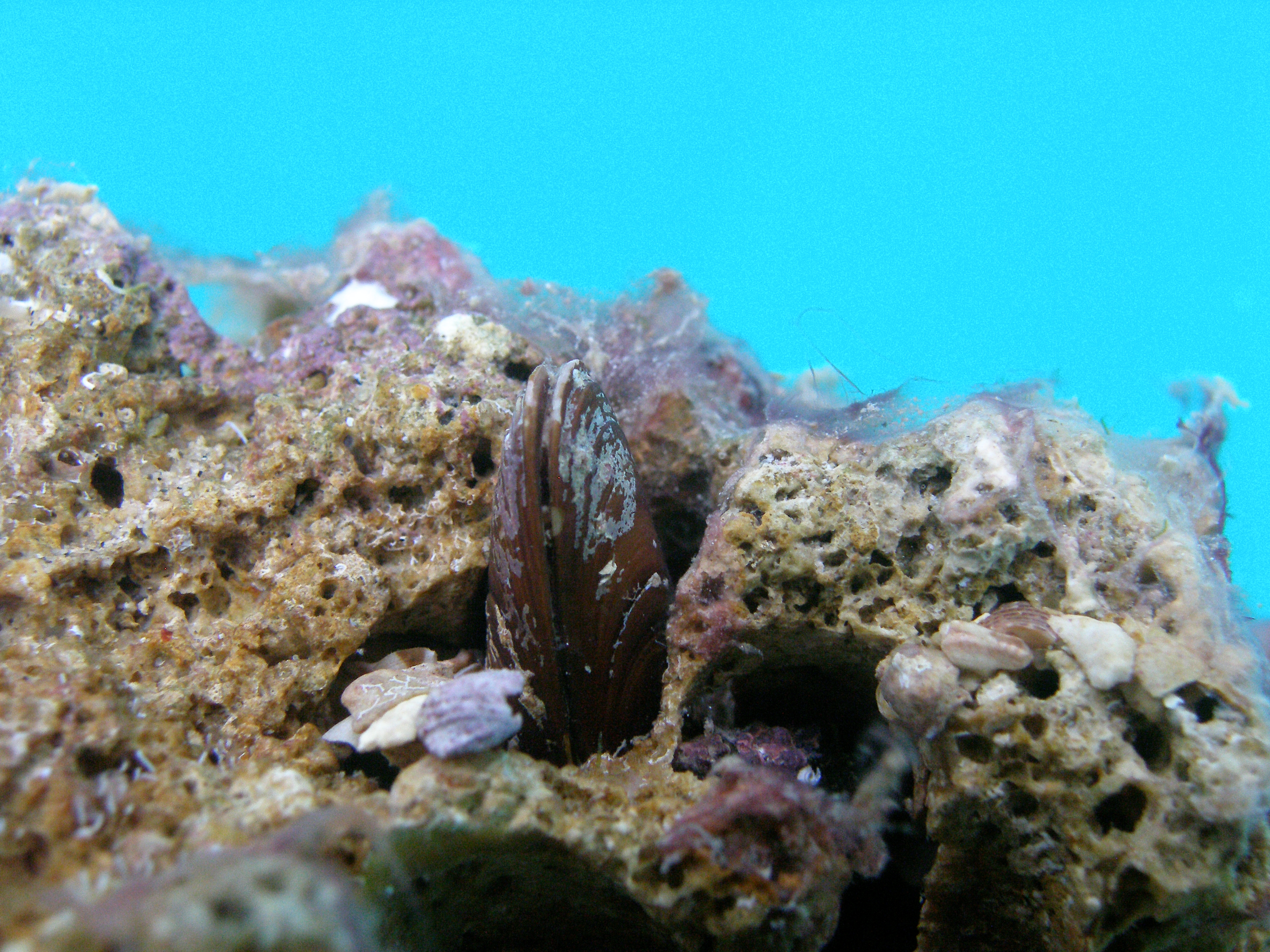 Lithophaga lithophaga in a rock.